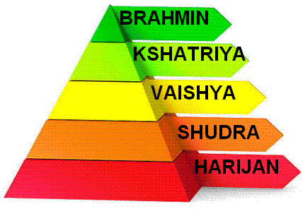 Castes of India